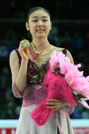 Kim Yu-Na during the ladies medals ceremony at the 2008 World Championships.